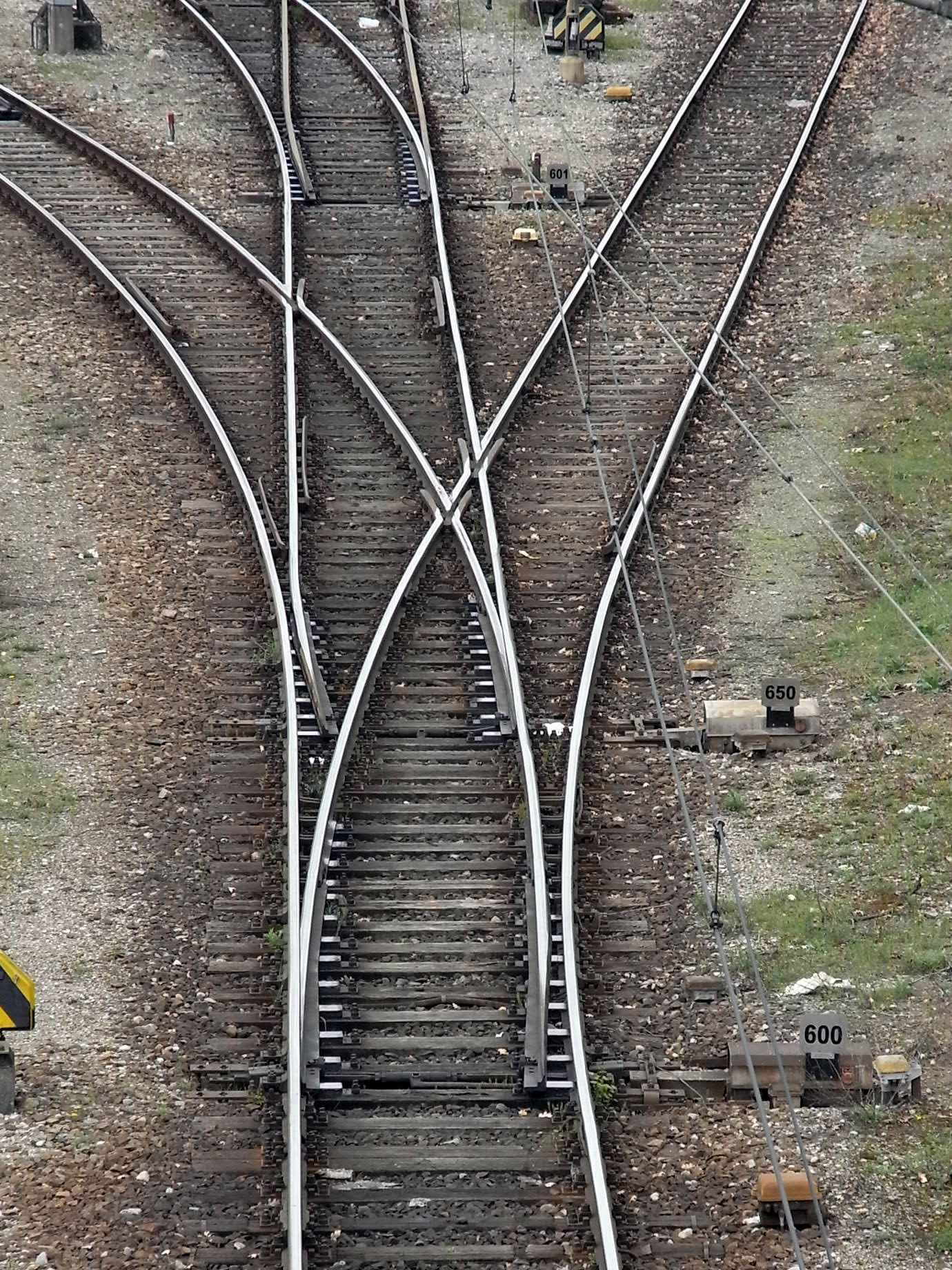 Interlaced turnout west of Donnersbergerbrücke in Munich (DE).